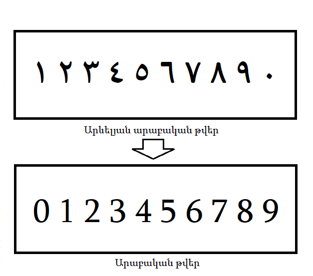 Replacement of Eastern Arabic numerals with Arabic numerals